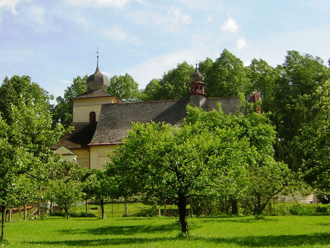 Jablonne, St Bartholomew